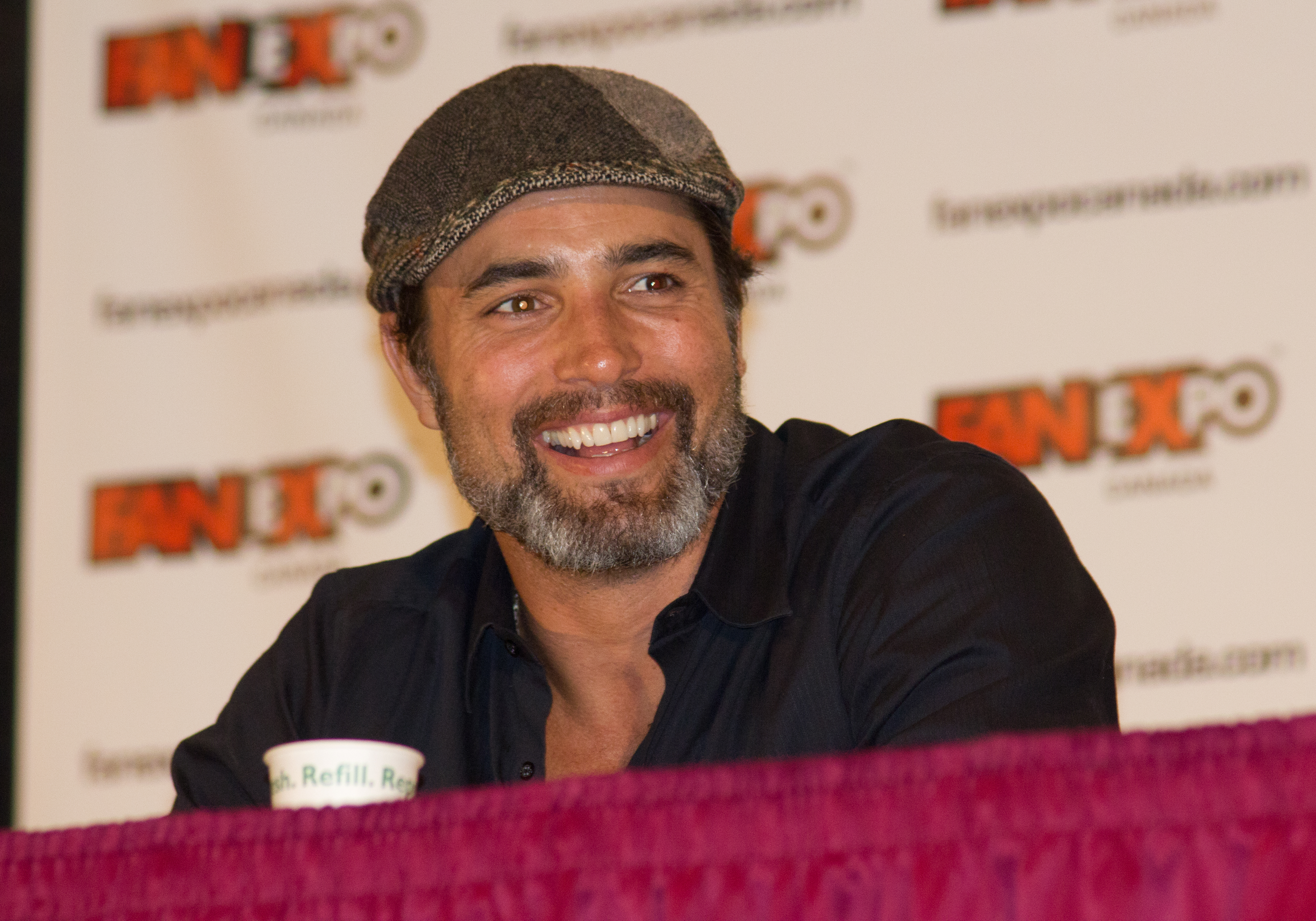 Actor Victor Webster at the 2012 FanExpo Canada